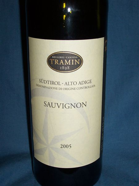 Italian wine from the Sudtirol DOC